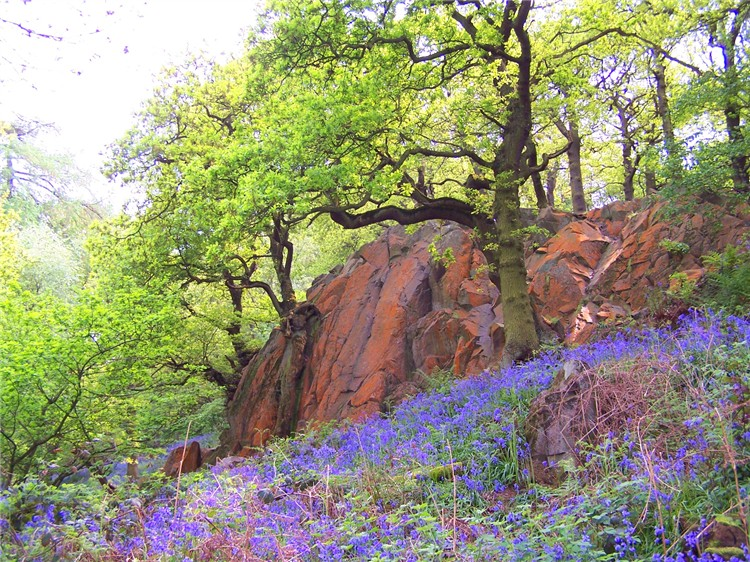 The outwoods in spring taken by kev747